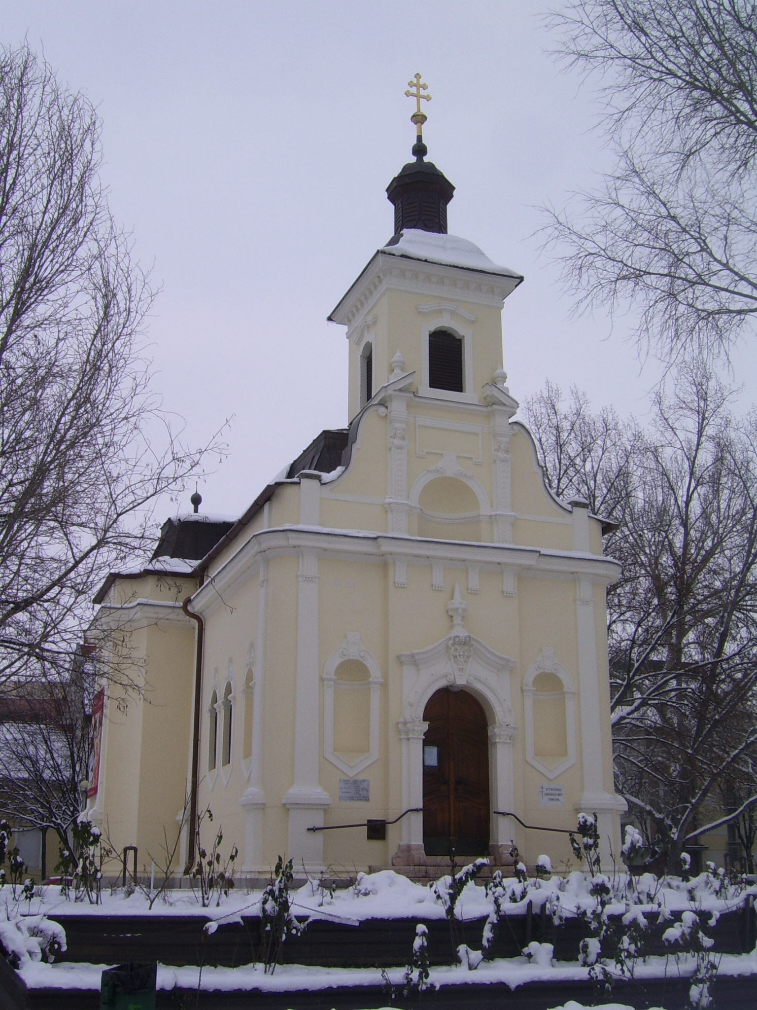 Greek catholic church in Szeged